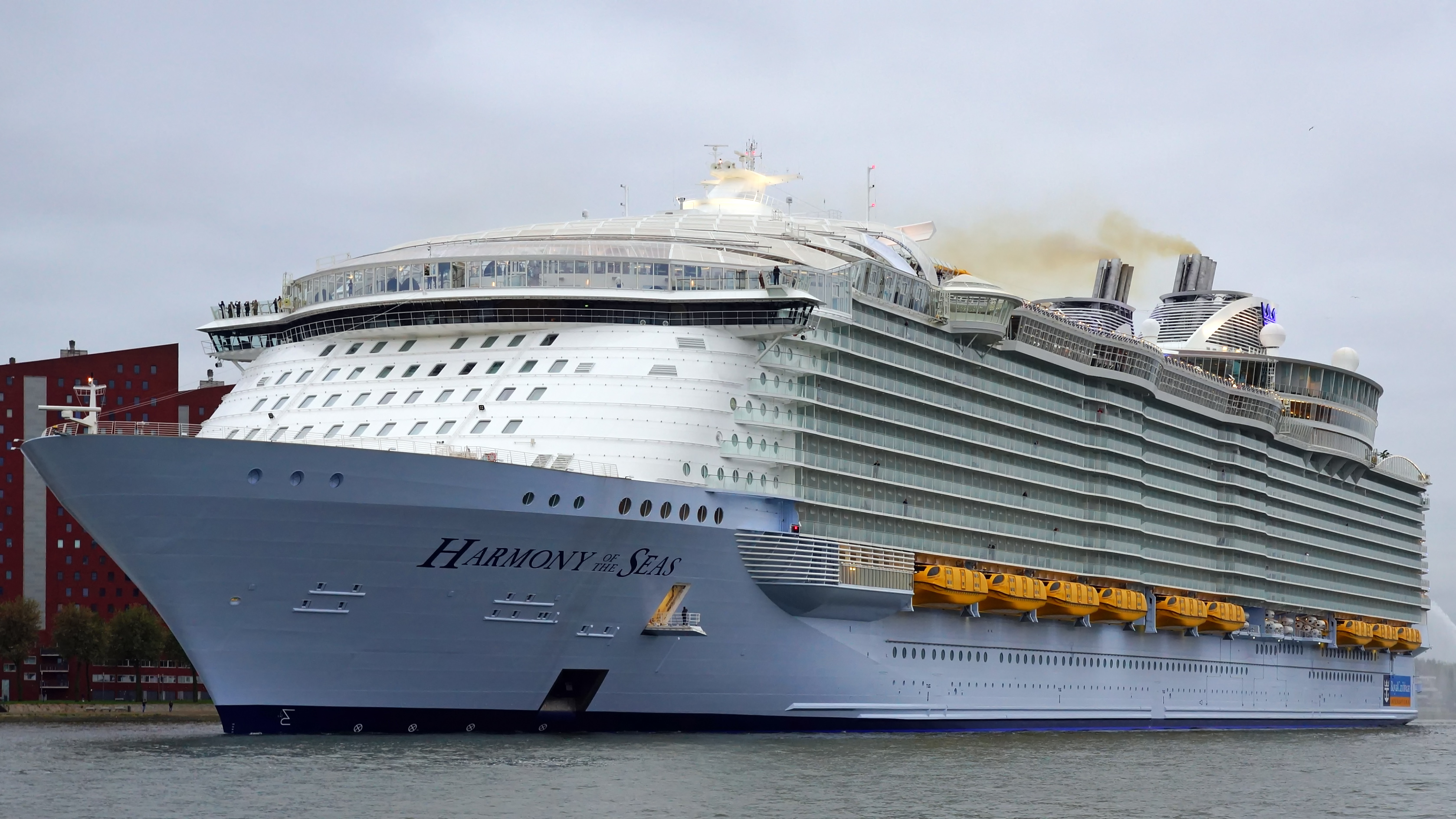 Cruiseship Harmony of the Seas in Rotterdam